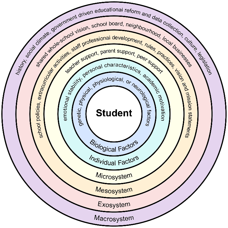 School Belongings students factors